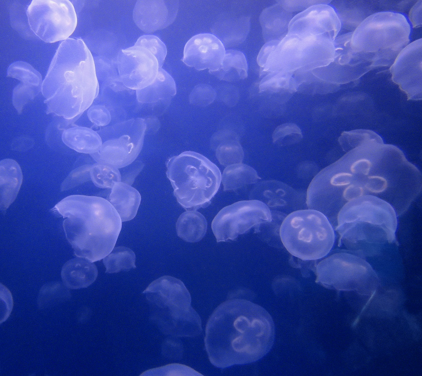 moon jellyfish, Denver Downtown Aquarium, Colorado / 2012